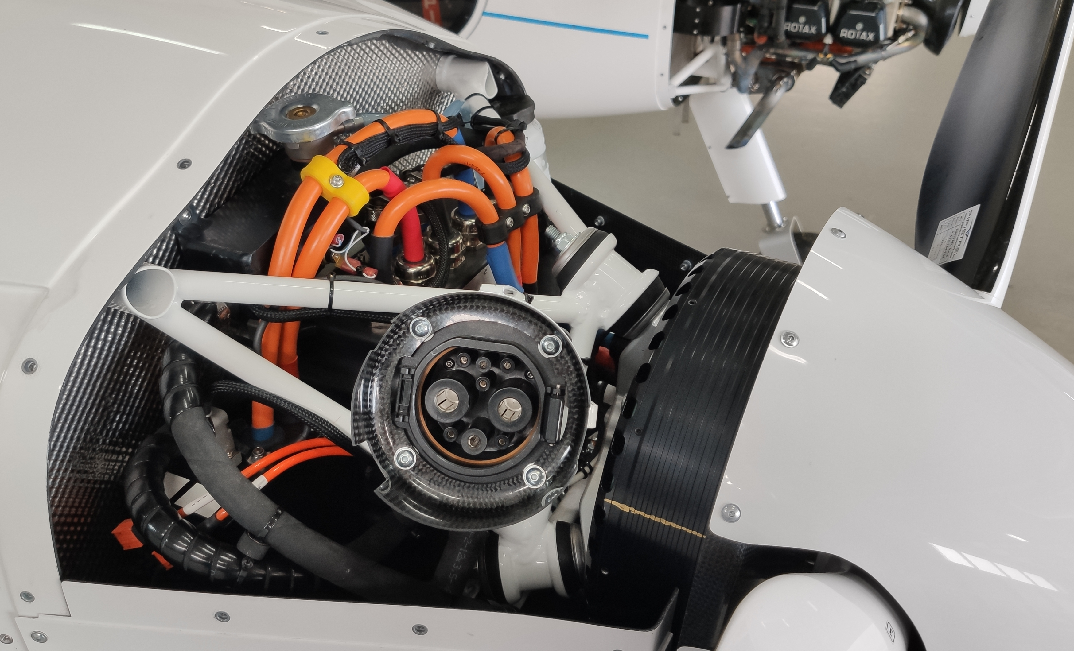 Pipistrel E-811-268MVLC electric aircraft engine mounted on a Pipistrel Velis Electro aeroplane. The E-811 is the first type certified electric engine for aircraft use.